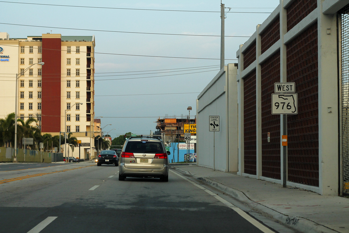 FL976wSignRoad-ByFL9-May2013